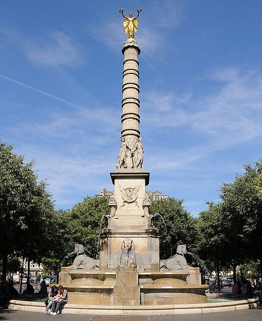 The Fontaine du Palmier in Paris 1st arrondissement, France work of Louis-Simon Boizot.